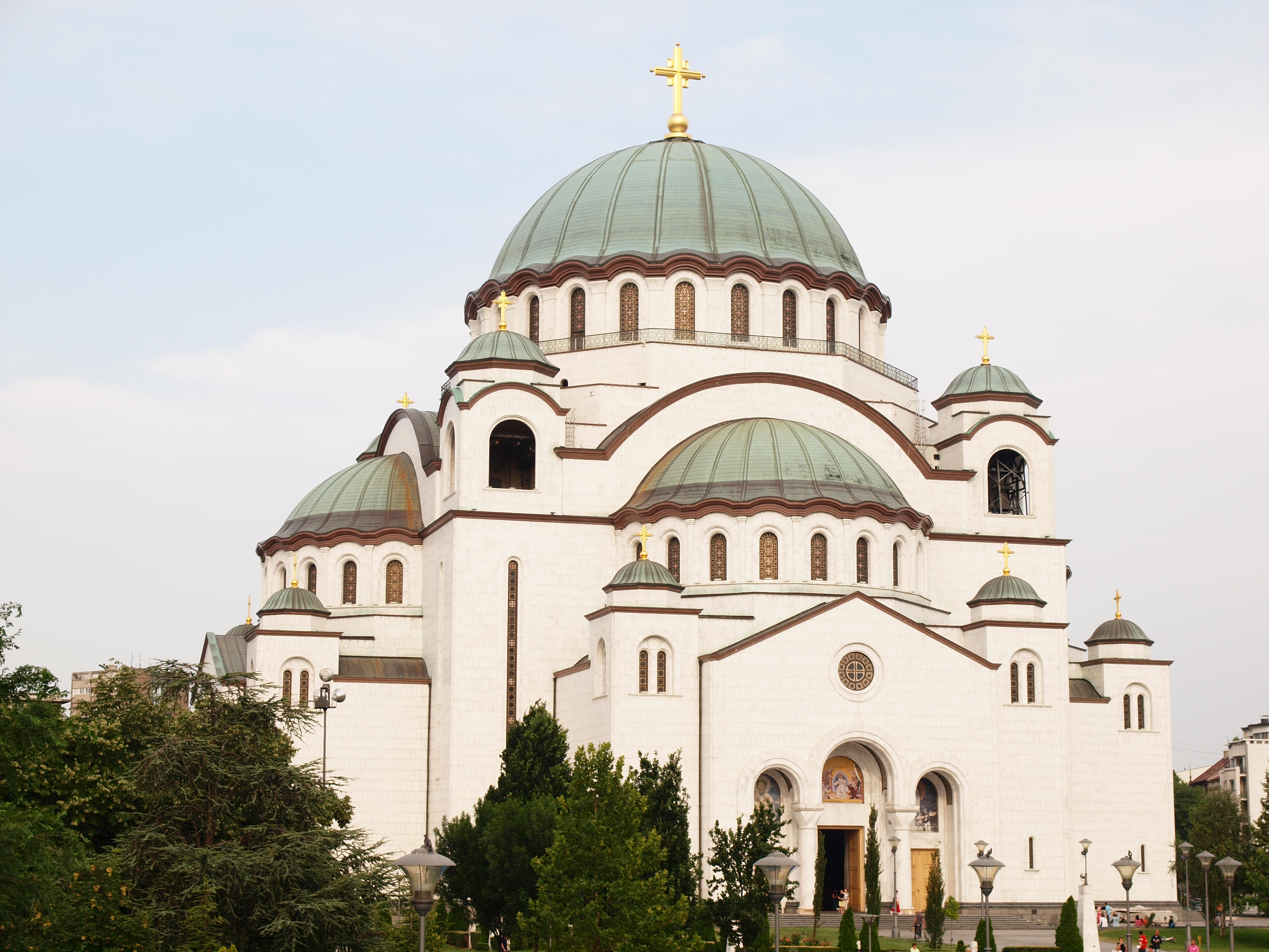 Hram u Beogradu